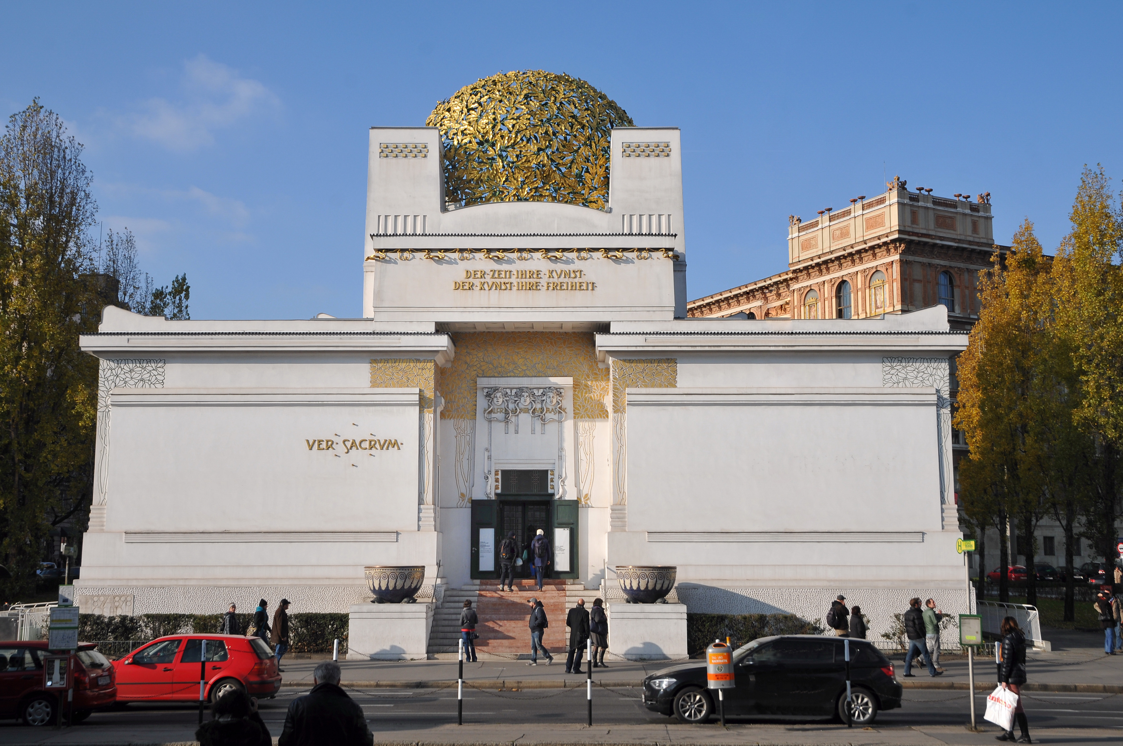 The Secession building is an exhibition hall built in 1897 by Joseph Maria Olbrich as an architectural manifesto for the Vienna Secession, located in Vienna, Austria. Secession refers to the seceding of a group of rebel artists from the long-established fine art institution.